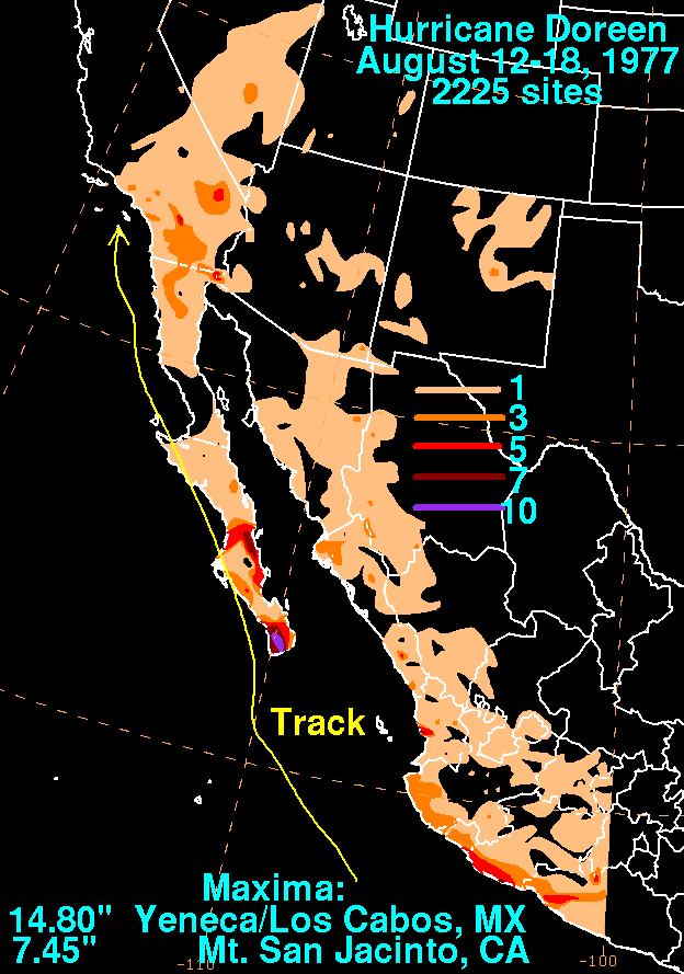 Storm total rainfall map of Hurricane Doreen during August 1977.